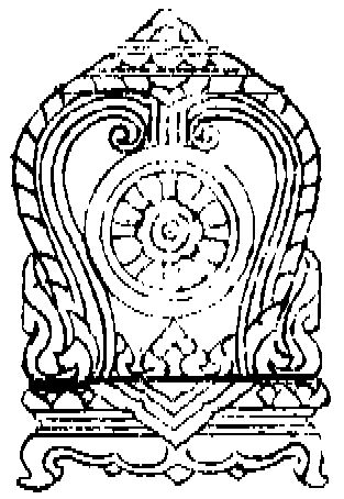 Emblem of Ministry of Education, Kingdom of Thailand, as appeared on the Royal Thai Government Gazette